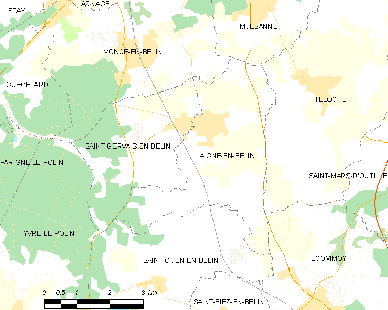 Map of French municipality